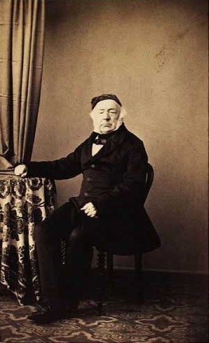 Hans Jørgen Blom (1792-1864), Danish army officer